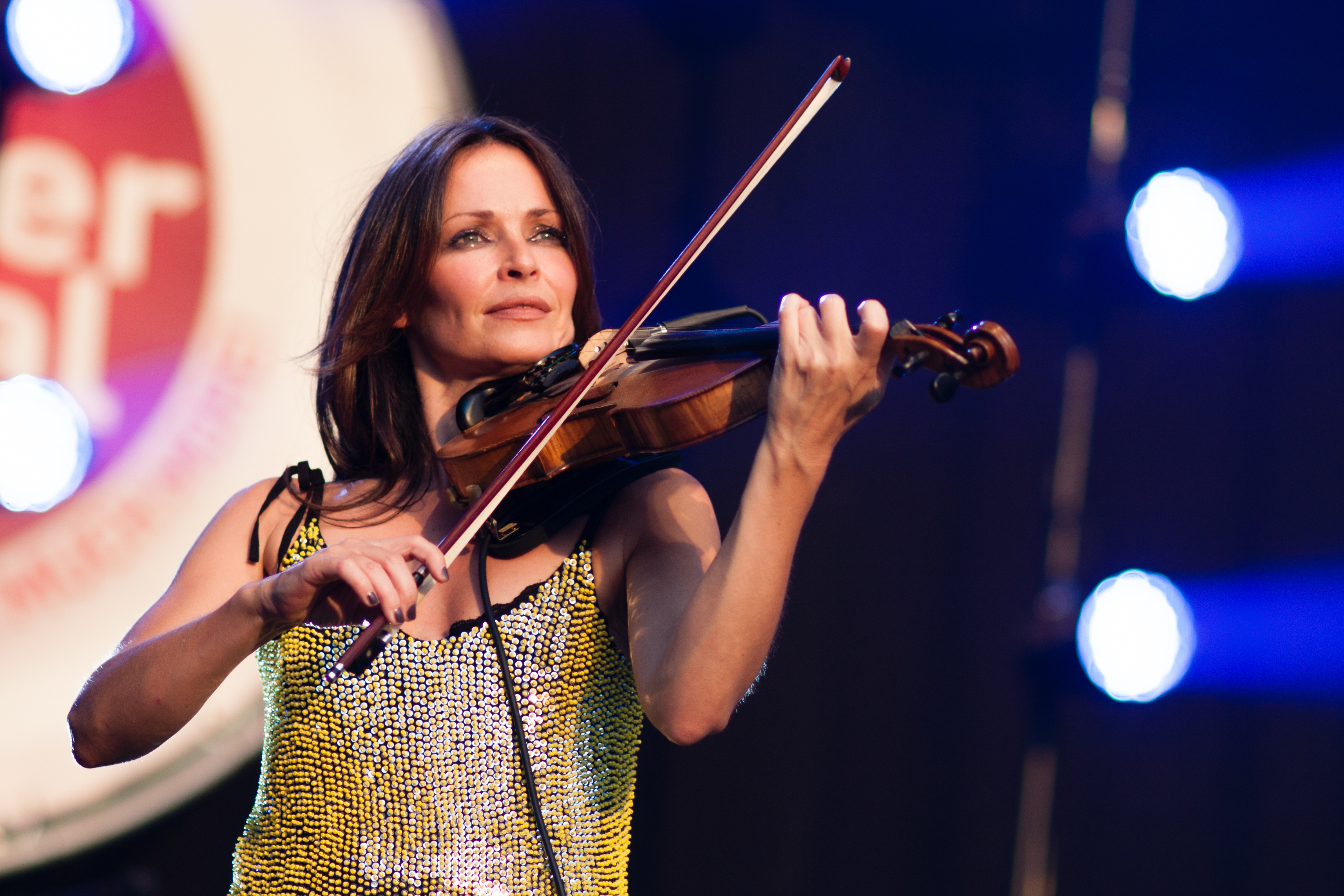 Follow me on facebook Twitter : @didyPhotography All the photographies I've made are now under CC0 (Creative Commons Zero) CC0 - learn more To the extent possible under law, Eddy BERTHIER has waived all copyright and related or neighboring rights to Sharon Corr @ Brussels Summer Festival 2012. This work is published from: France.